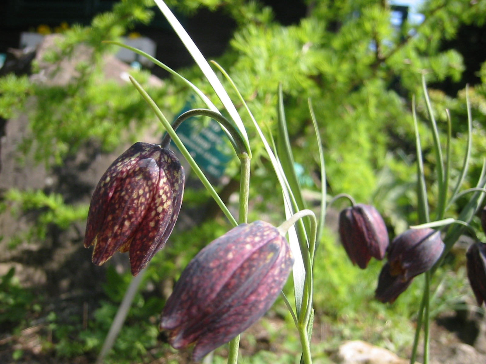 Fritillaria montana; Botanic Garden, Vienna, Austria.